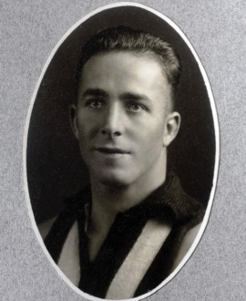 Photograph of George Gibbs from 1929-1930